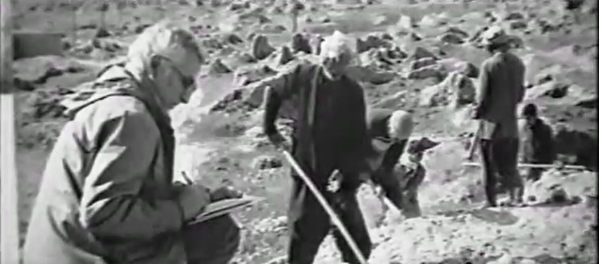 Kambakahshfard at the Excavation pit in Kangavar, 1972